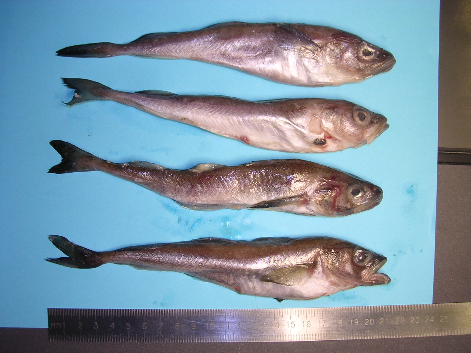 Latin name: Boreogadus Saida. Comercial name: Polar cod, bacalao boreal, Saika. Minimun size 12 cm Maximun size 22 cm